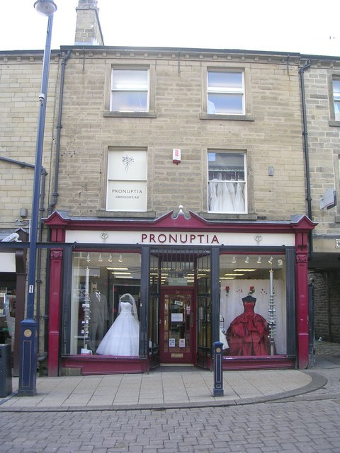 Pronuptia - King Street